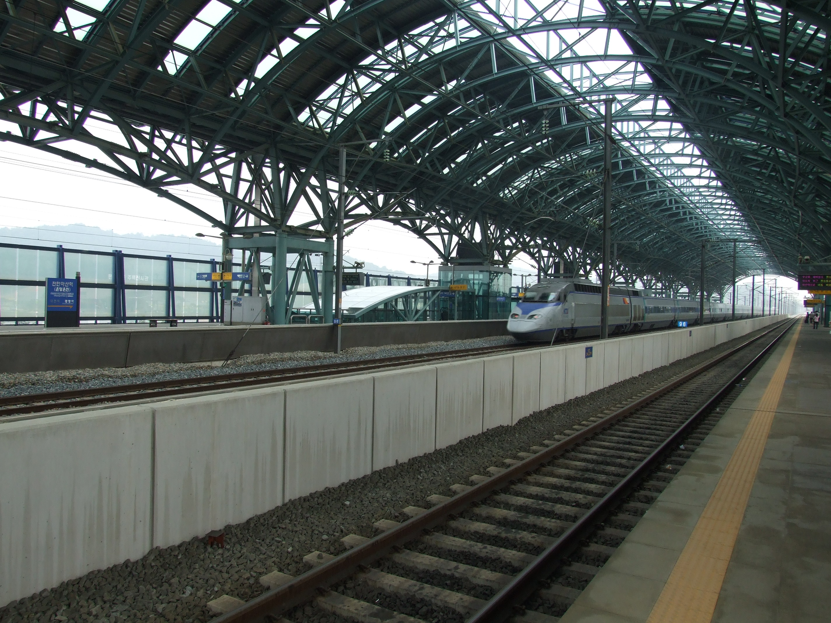 KTX train at Cheoan-Asan station